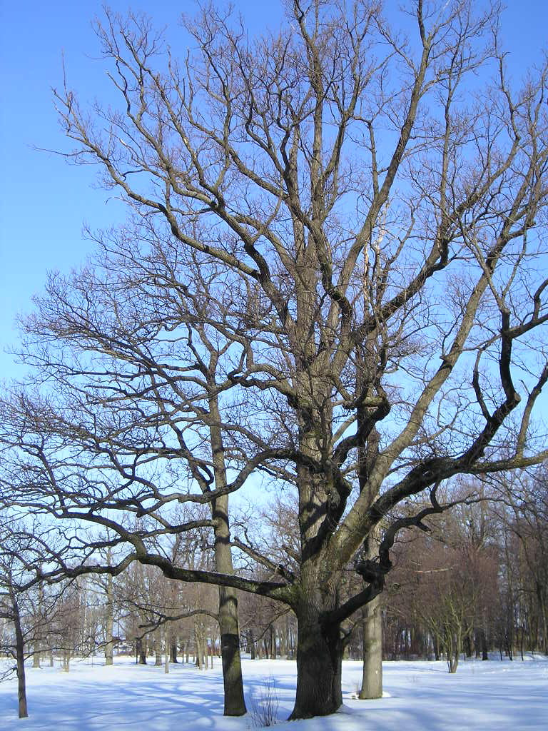 Alexandria park. Old tree.